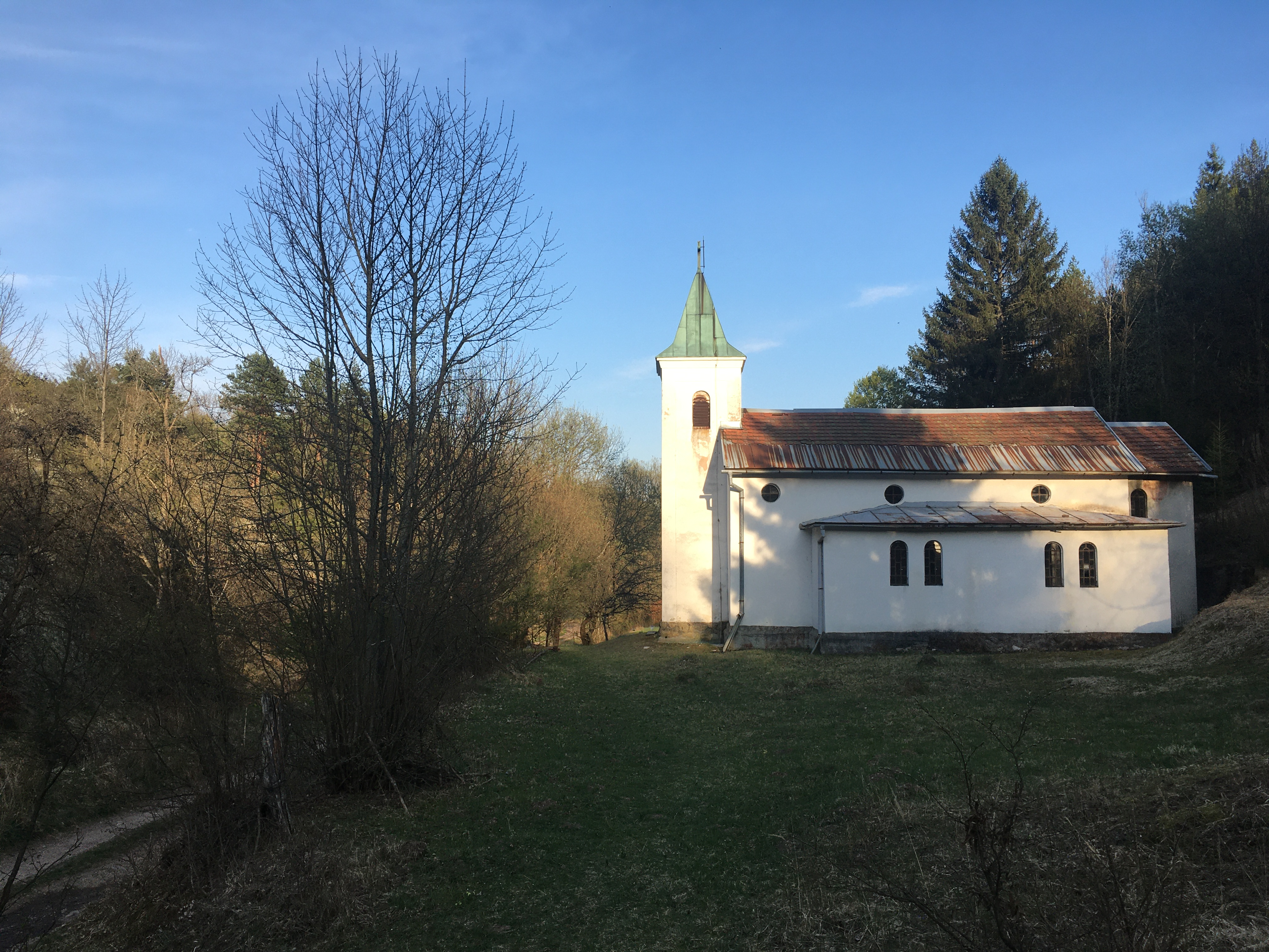 Roman catholic church of Saint Mary in an abandoned Carpatho German village of Hadviga in Brieštie, Slovakia